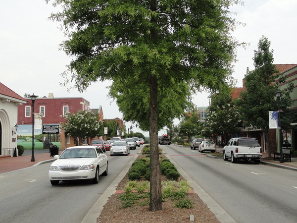 A view of Lexington's Main Street.